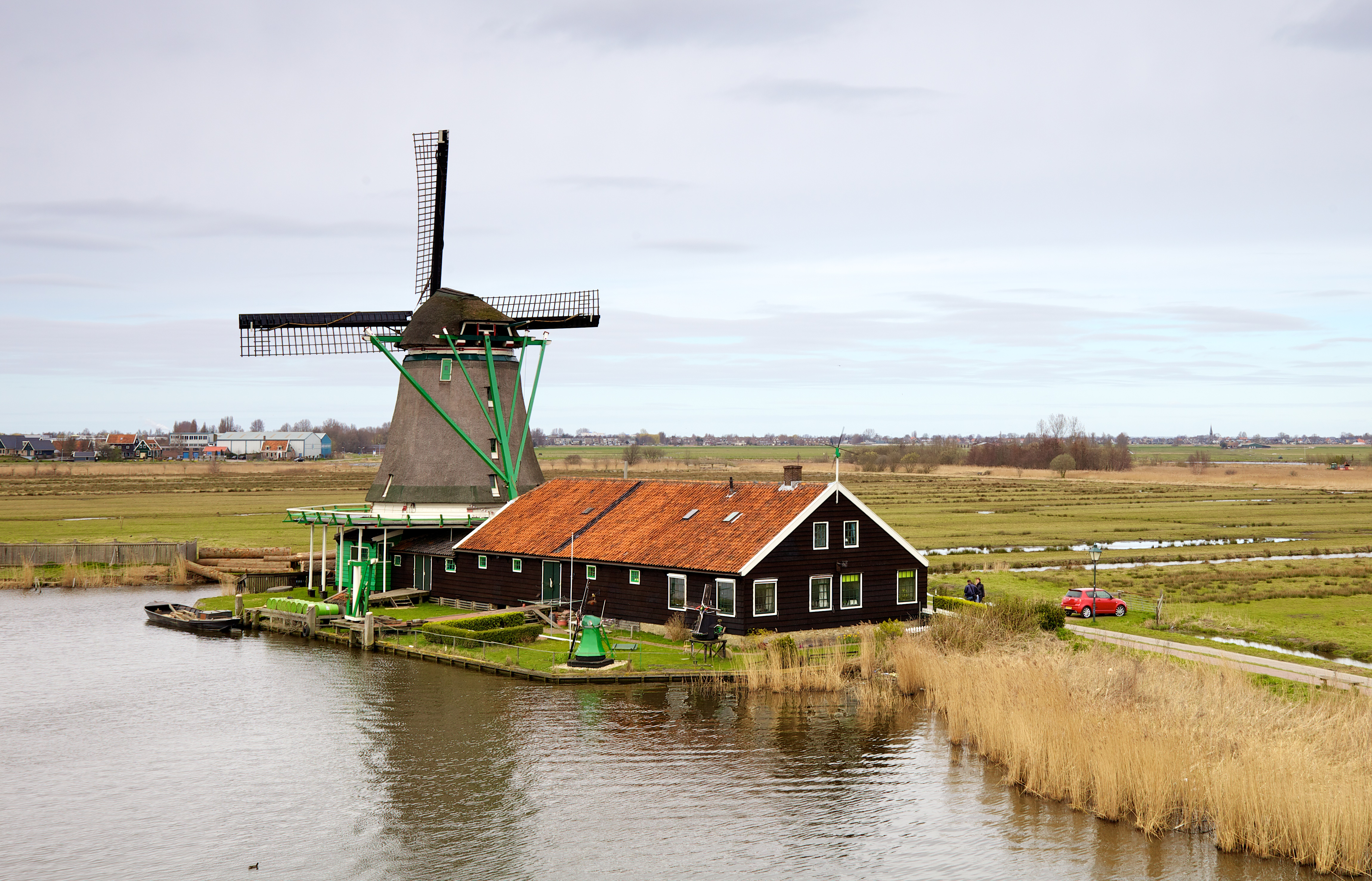 De Zoeker (the Seeker) windmill in Zaanse Schans, North Holland, Netherlands. This mill was used to produce oil.